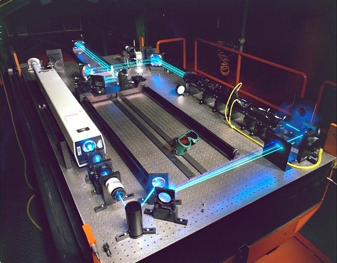 High Reynolds Channel II and Laser Doppler Velocimeter System, N-231